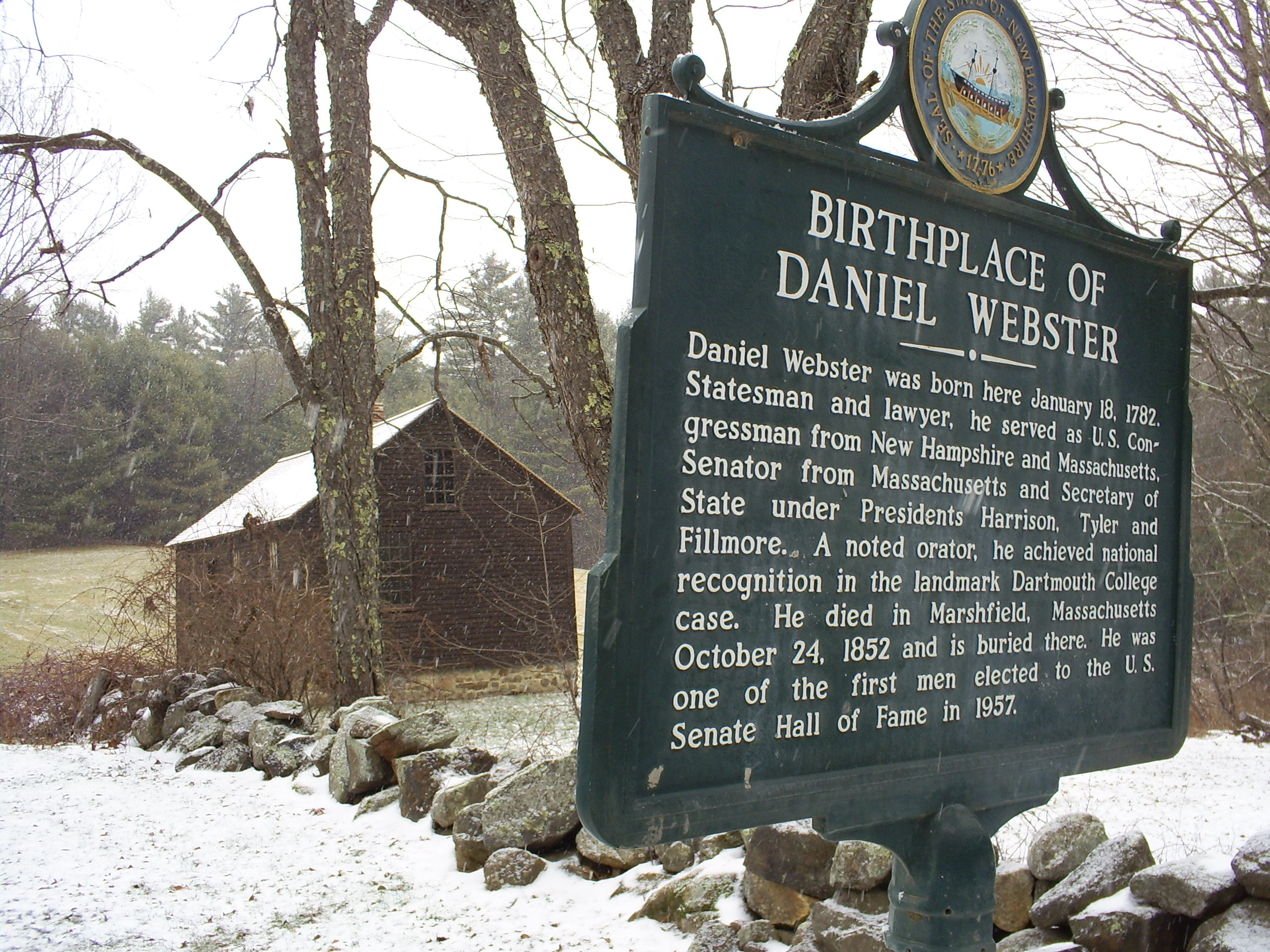 Photo by Craig Michaud.This is Daniel Webster's Birthplace in Salisbury, New Hampshire